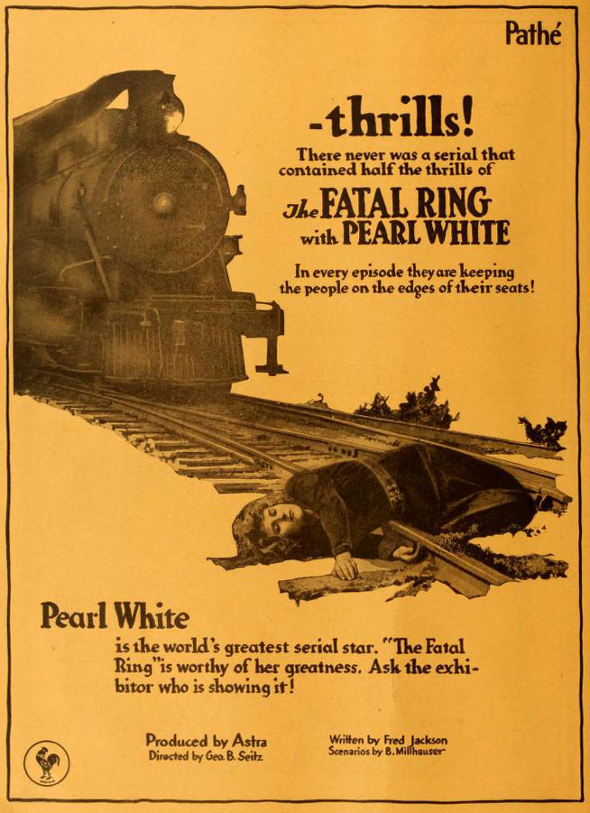 Advertisement in The Moving Picture World for the American film serial The Fatal Ring (1917).